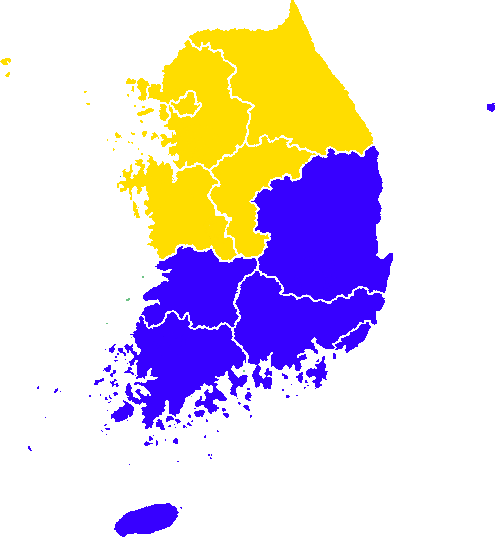 Result map of the 1963 South Korean elections, based on File:PESK2007 RESULT MAP.png. Province borders are reconstructed and may not be accurate.